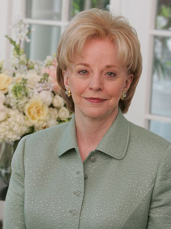 Lynne Cheney official Second Lady of the United States photo